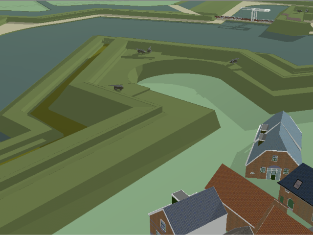 Stoltenborg, Bredevoort reconstruction